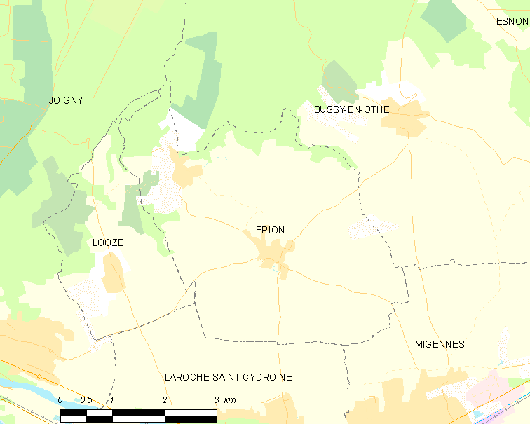 Map of French municipality Brion